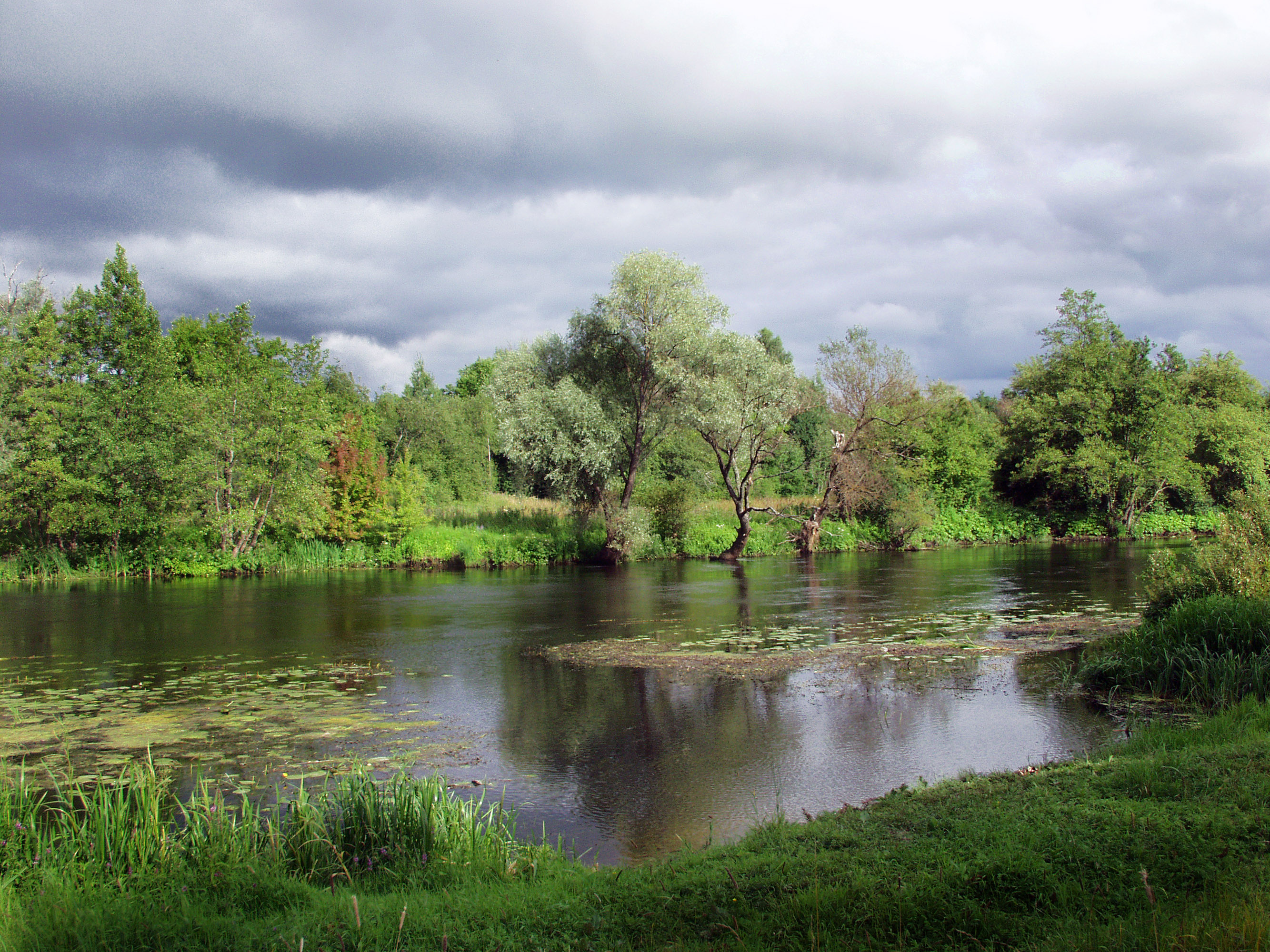 The nature of the Volgograd Region: floodplain vegetation along the banks of the pond.